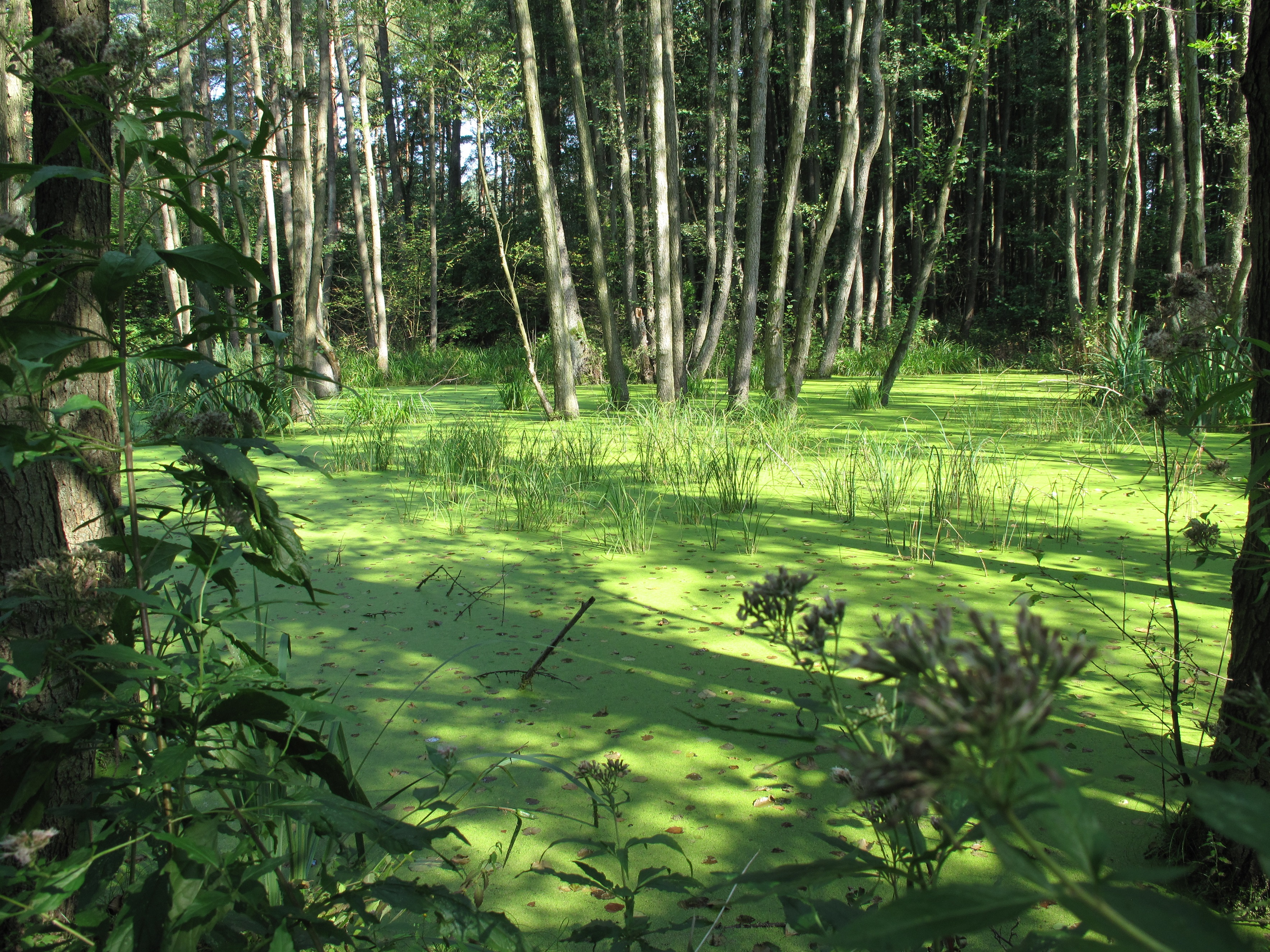 Bog/Alder forest on the Blabbergraben at the former Blabbermühle (water mill) in the village Görsdorf. The Blabbergraben is a stream in the District Oder-Spree, Brandenburg, Germany. Coming from the „ Herzberger See“ the stream connects five small, long lakes in the municipalities Rietz-Neuendorf and Tauche and drains them into the river Spree. Including the lakes the flow length is 13,7 kilometers.